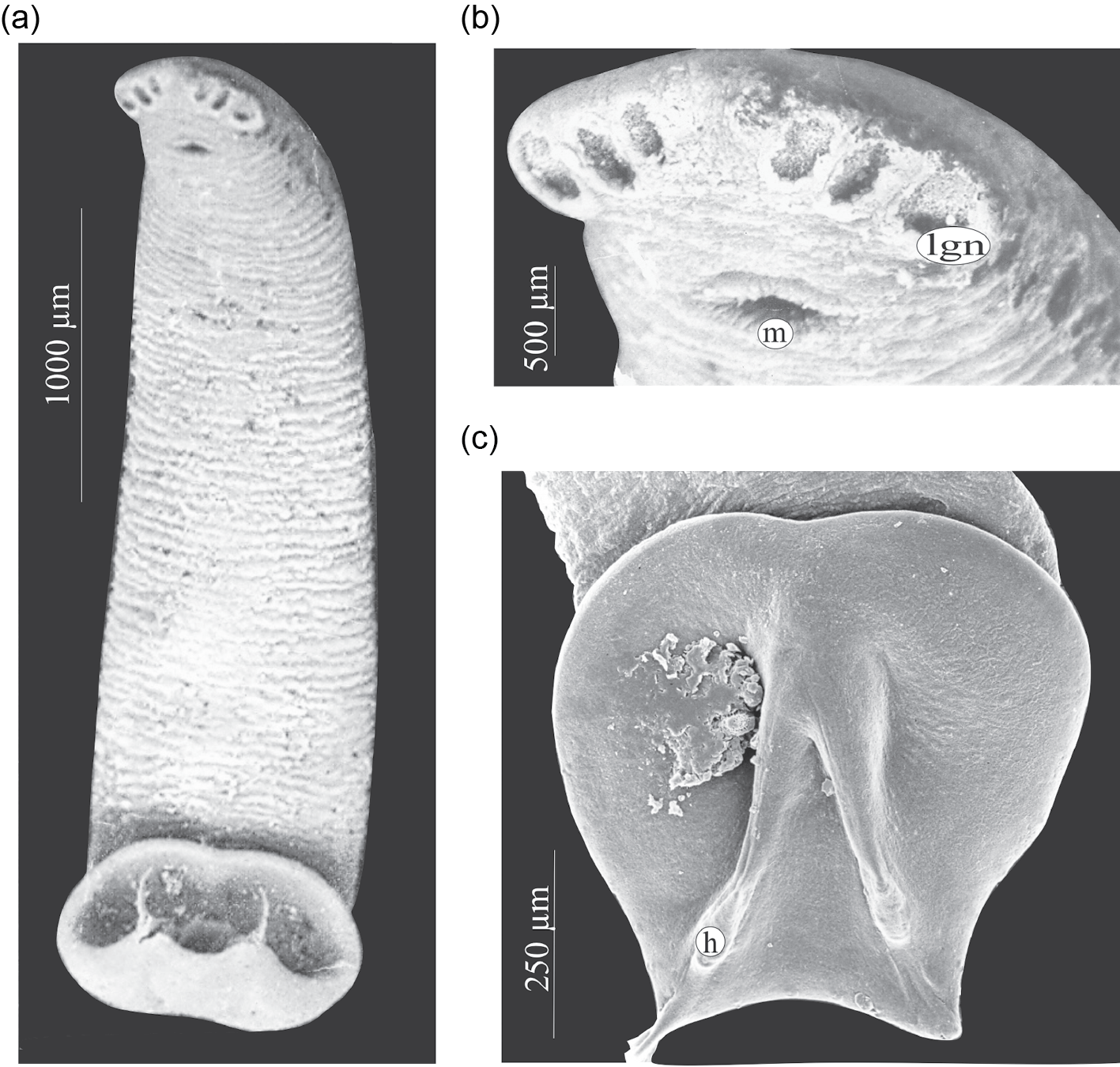 Figure 3 of the paper Triloculotrema euzeti Boudaya & Neifar, 2016, scanning electron micrographs. (A) Whole body (ventral view), (B) enlarged view of head region, (C) haptor. Abbreviations: h, hamulus; m, mouth; lgn, anterolateral glands containing needle-like secretion.